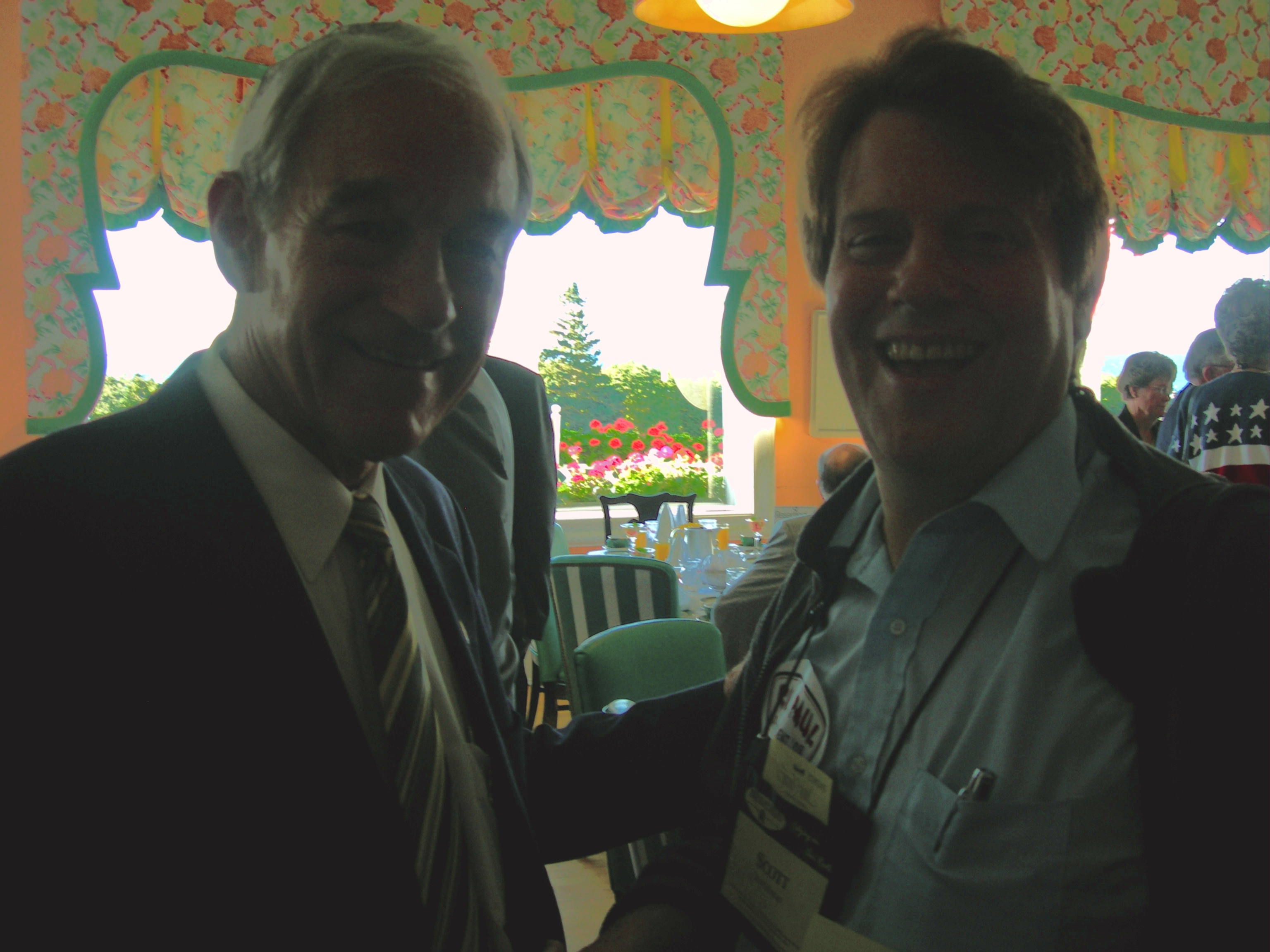 Congressman Ron Paul greets Michigan Politician Scotty Boman. Ron Paul attended the conference as part of his presidential campaign.